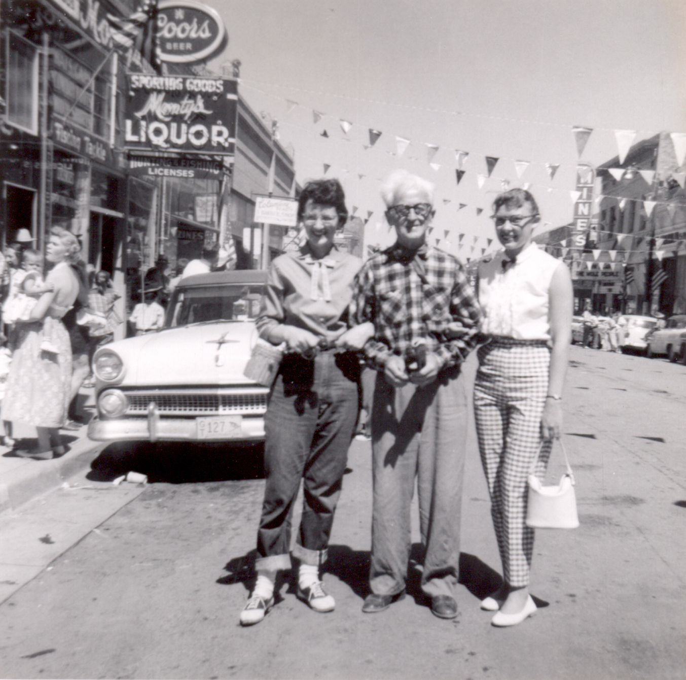 Binky and the Ladies II - Idaho Springs, Colorado